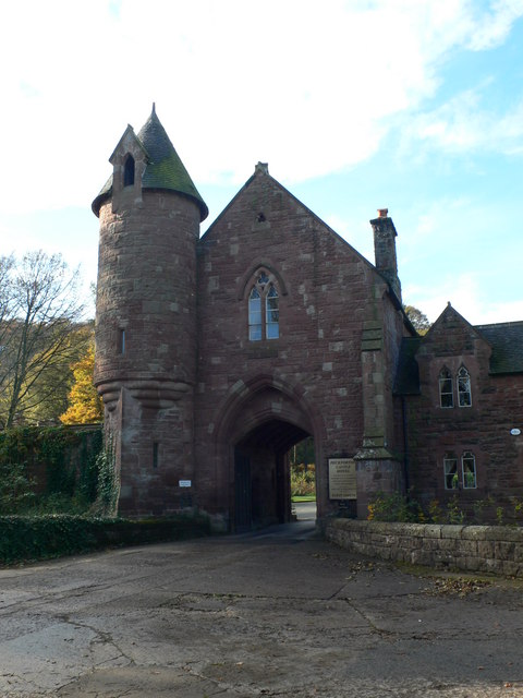 Peckforton Castle Gateway Impressive entrance lodge to the southeast of Peckforton castle which is listed Grade II*. It was designed by Salvin and is constructed in red brick and stone with a tile roof. [1]